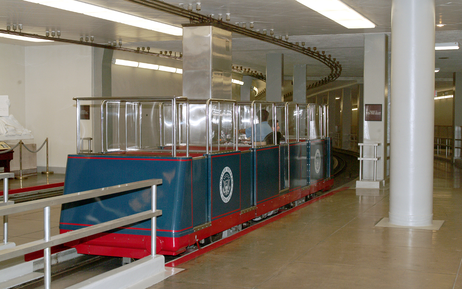 The Russell Senate Office Building station in the United States Capitol Subway System